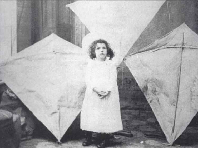 Daughter of William A. Eddy posing with typical Eddy kites